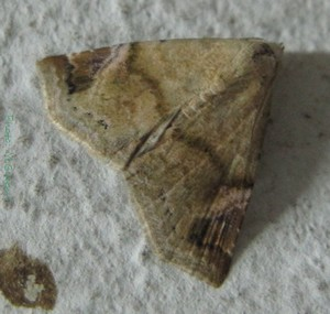 Eublemmoides apicimacula moth (Mabille, 1880)